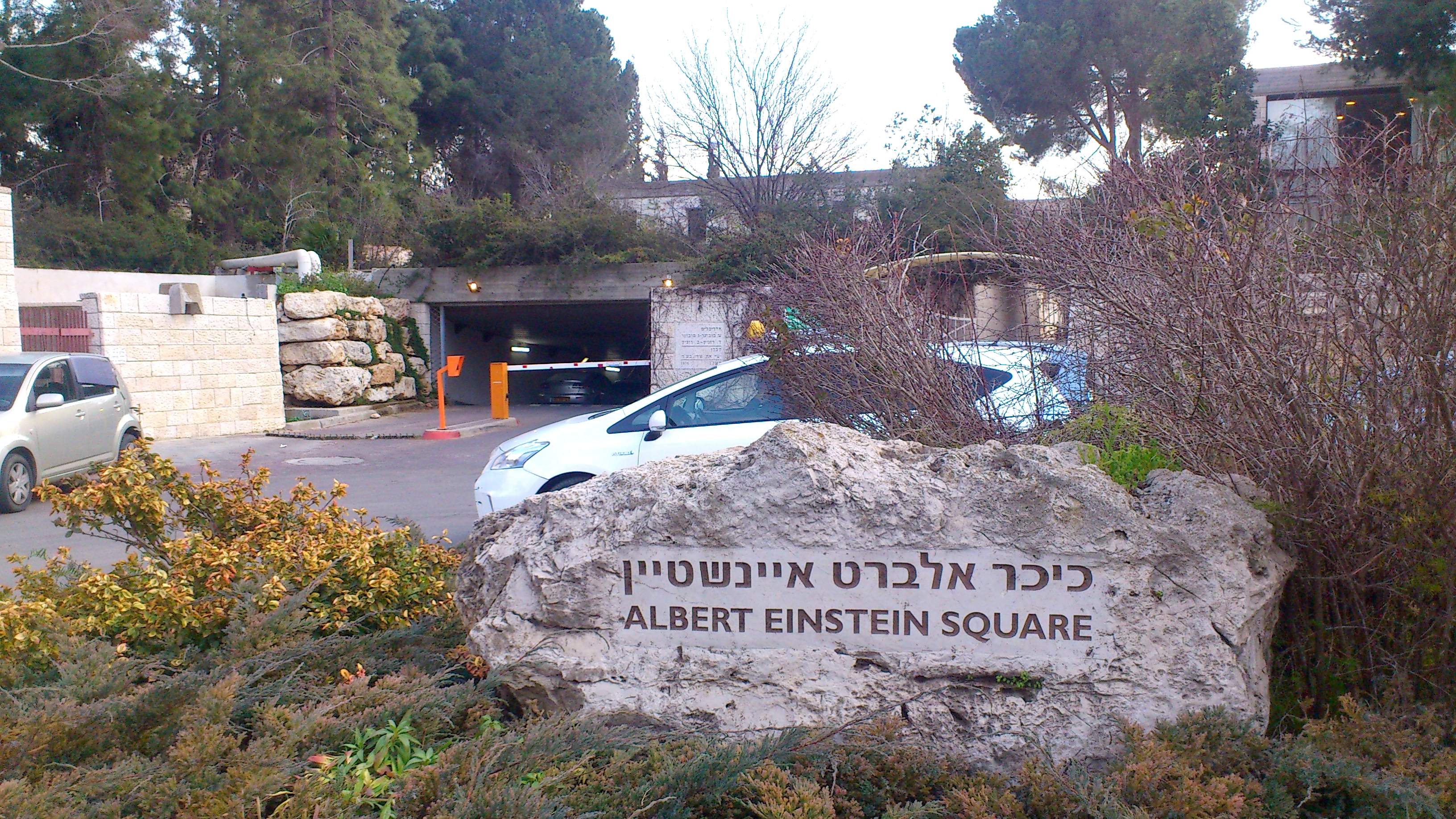 Albert Einstein Square sign, outside the Israel Academy of Sciences and Humanities, Jerusalem.